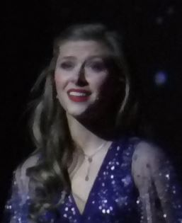 Lily Laight at the Babbacome Theatre in December 2017